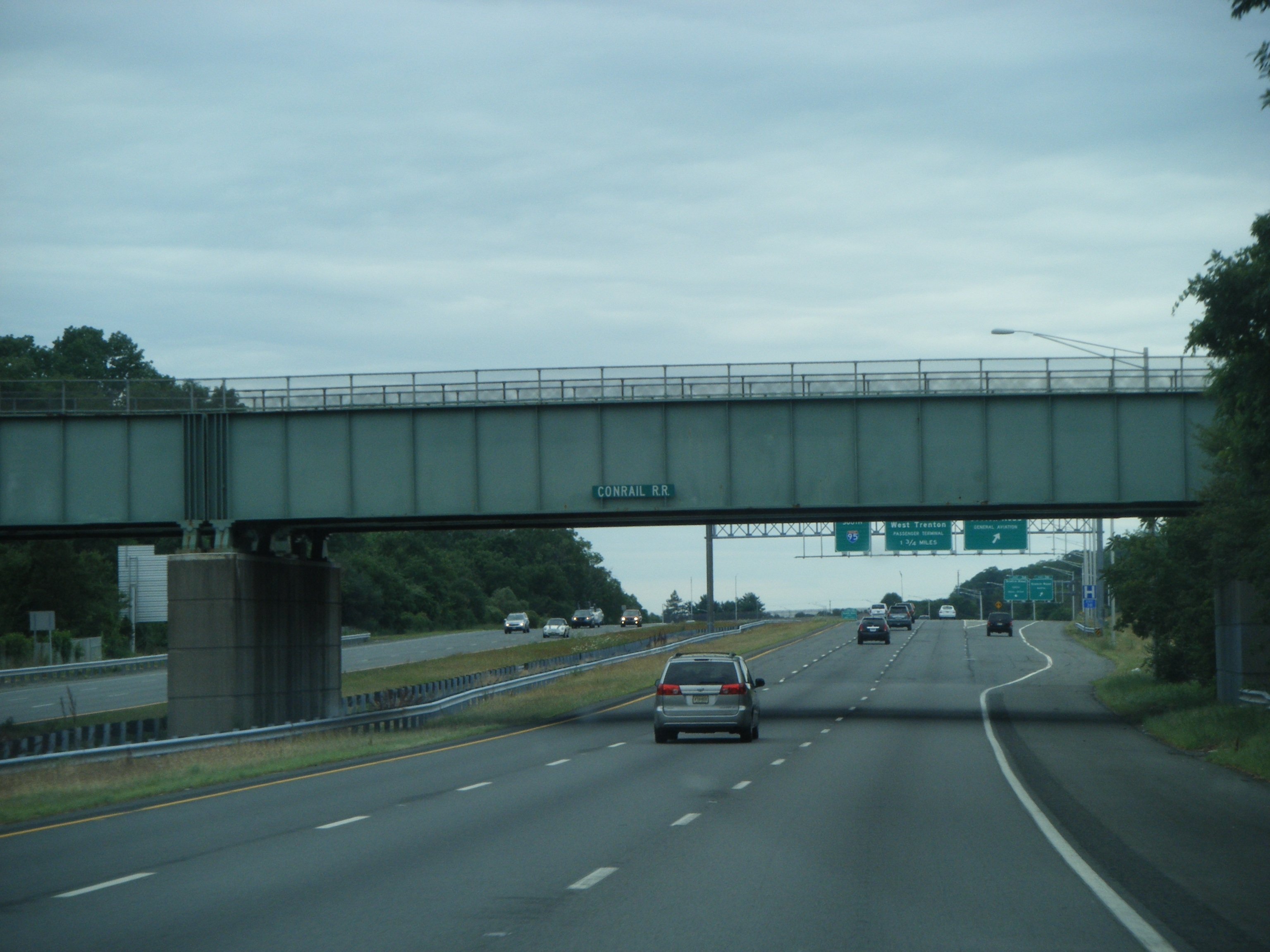 Southbound Interstate 95 at bridge under CSX's Trenton Subdivision in Ewing Township, New Jersey. The bridge still has a sign for Conrail, the former owner of the railroad line.